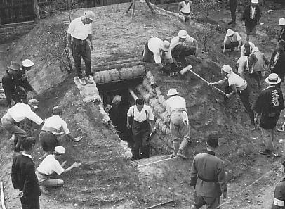 Construction of Air-raid shelter in Japan